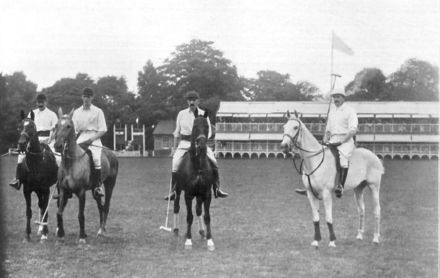 Great Britain polo team at the 1908 Summer Olympics